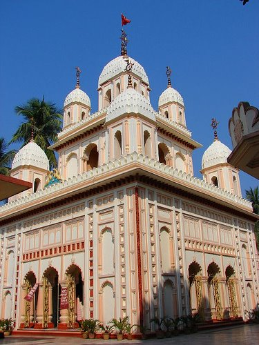 This is the picture of the temple of goddess "Sarvamangala"(actually a part of goddess "Durga") in Burdwan(West Bengal,India),near my house